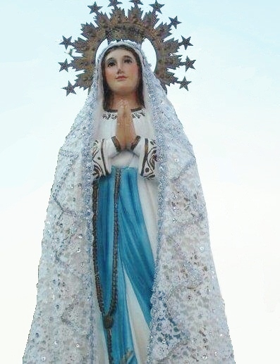 Praying